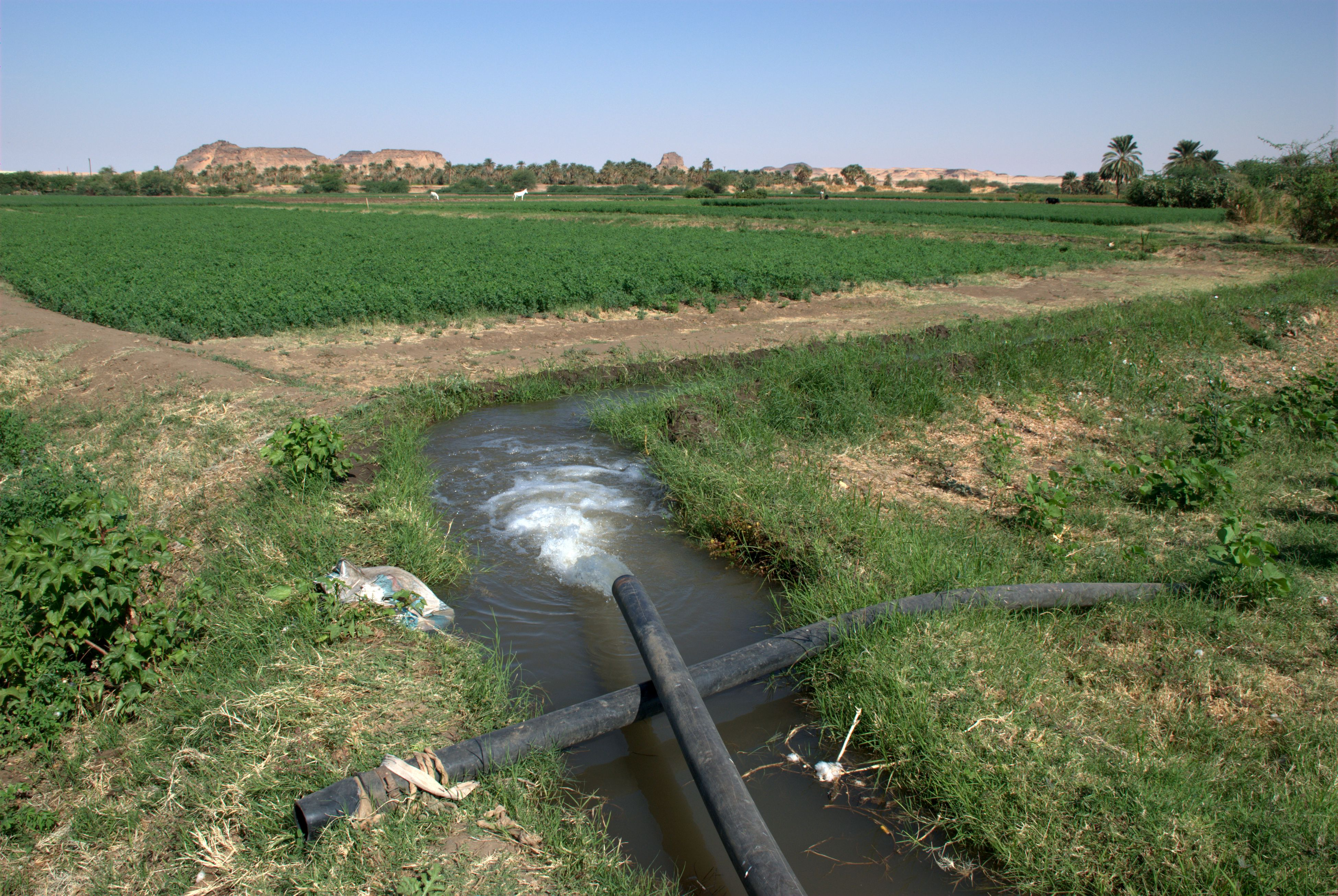 Karima, Sudan, irrigated fields along the nile